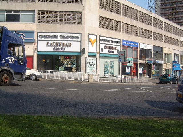 The Yorkshire Television - Calendar South office at 23 Charter Square, Sheffield, West Yorkshire